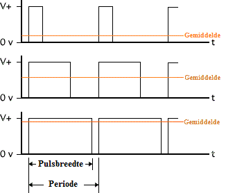 Display of the average value of a PWM signal at various duty cycles